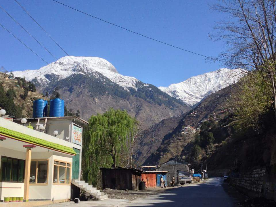 The Kaghan Valley is an alpine-climate valley in the north-east of Mansehra District of the Khyber Pakhtunkhwa Province of Pakistan. The valley is a popular tourist destination for Pakistanis, and smaller numbers of foreigners.